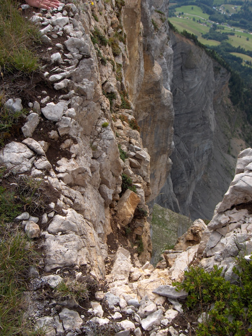 The cliff of Mont Granier from the top in july 2005 by french wikipedia user 3Samz.